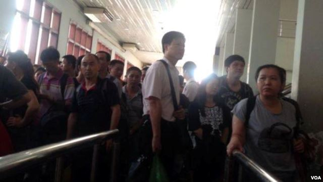 In 2014, because of the anti-China protest in Vietnam, Chinese in Vietnam fleed to Cambodia.